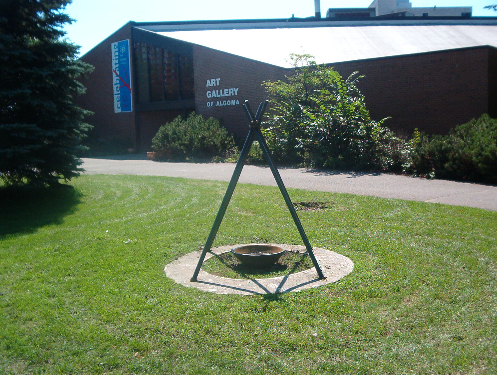 Art Gallery of Algoma, west side, Sault Ste. Marie, Ontario, Canada.